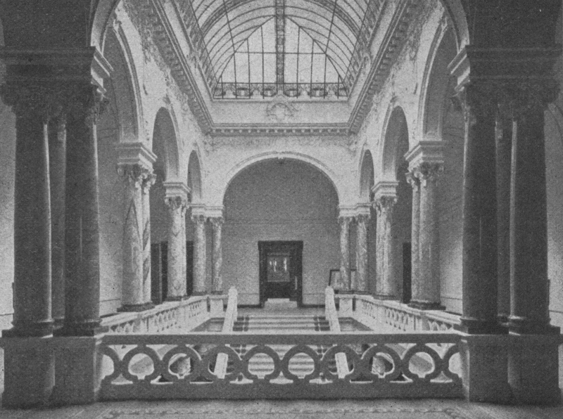 Stairway of Kunsthalle Bremen in 1902.